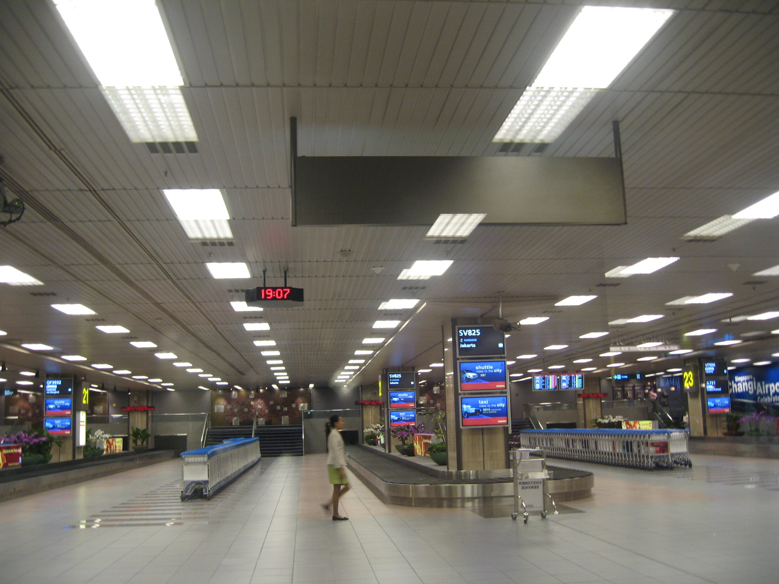 Singapore Changi Airport, Terminal 1, Arrival Restricted Area.